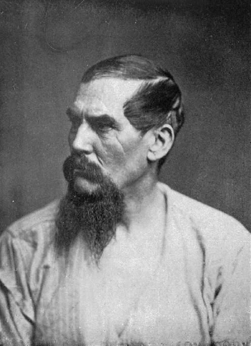 Sir Richard Francis Burton 1821-1890 Explorer, ethnographer, and man of letters. Pilgrim to Mecca and Harar; discoverer of Lake Tanganyika; translator of the Arabian Nights; controversialist and iconoclast.